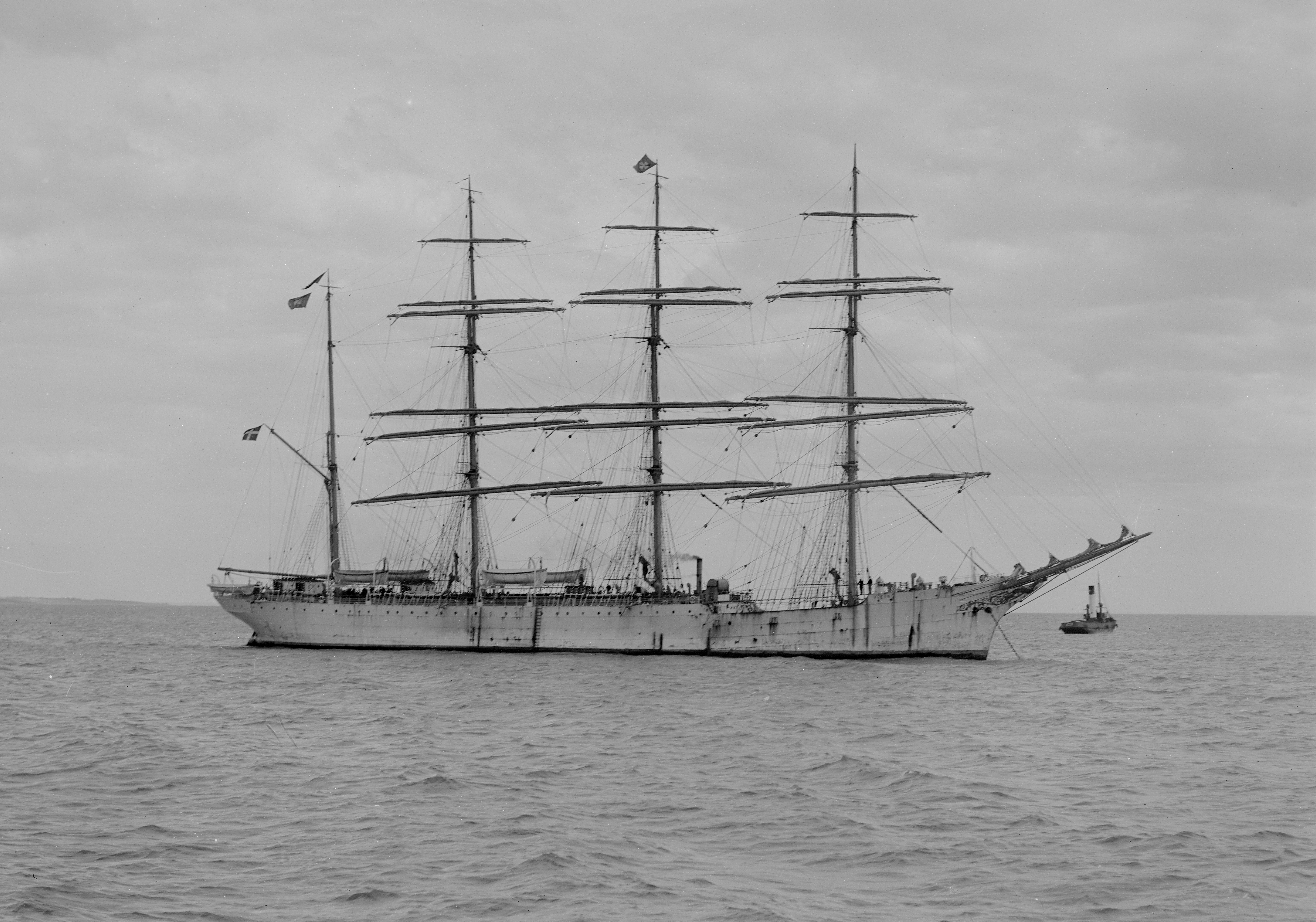 Viking, under Dannish flag.